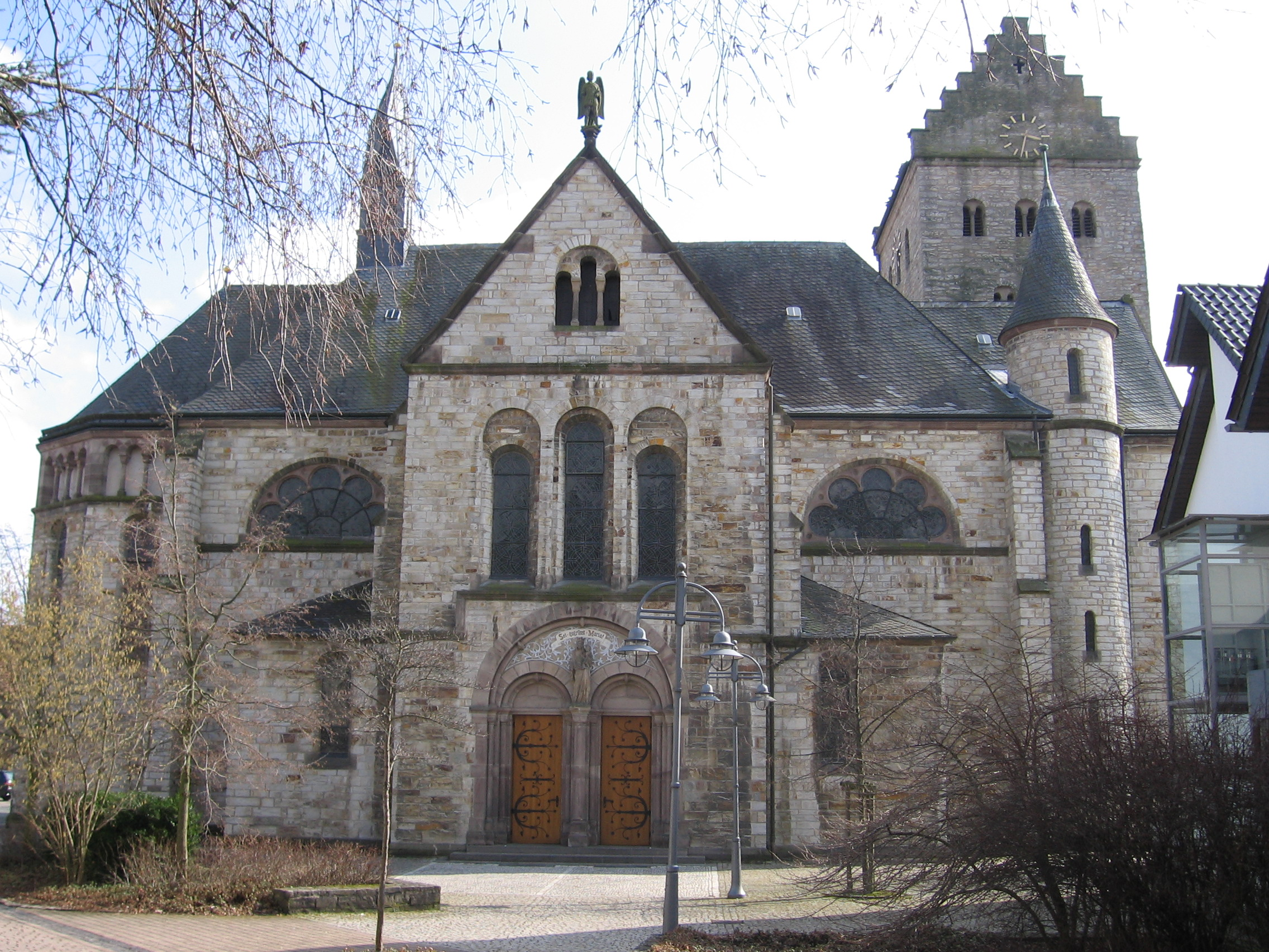 Church of the German village Kirchborchen.